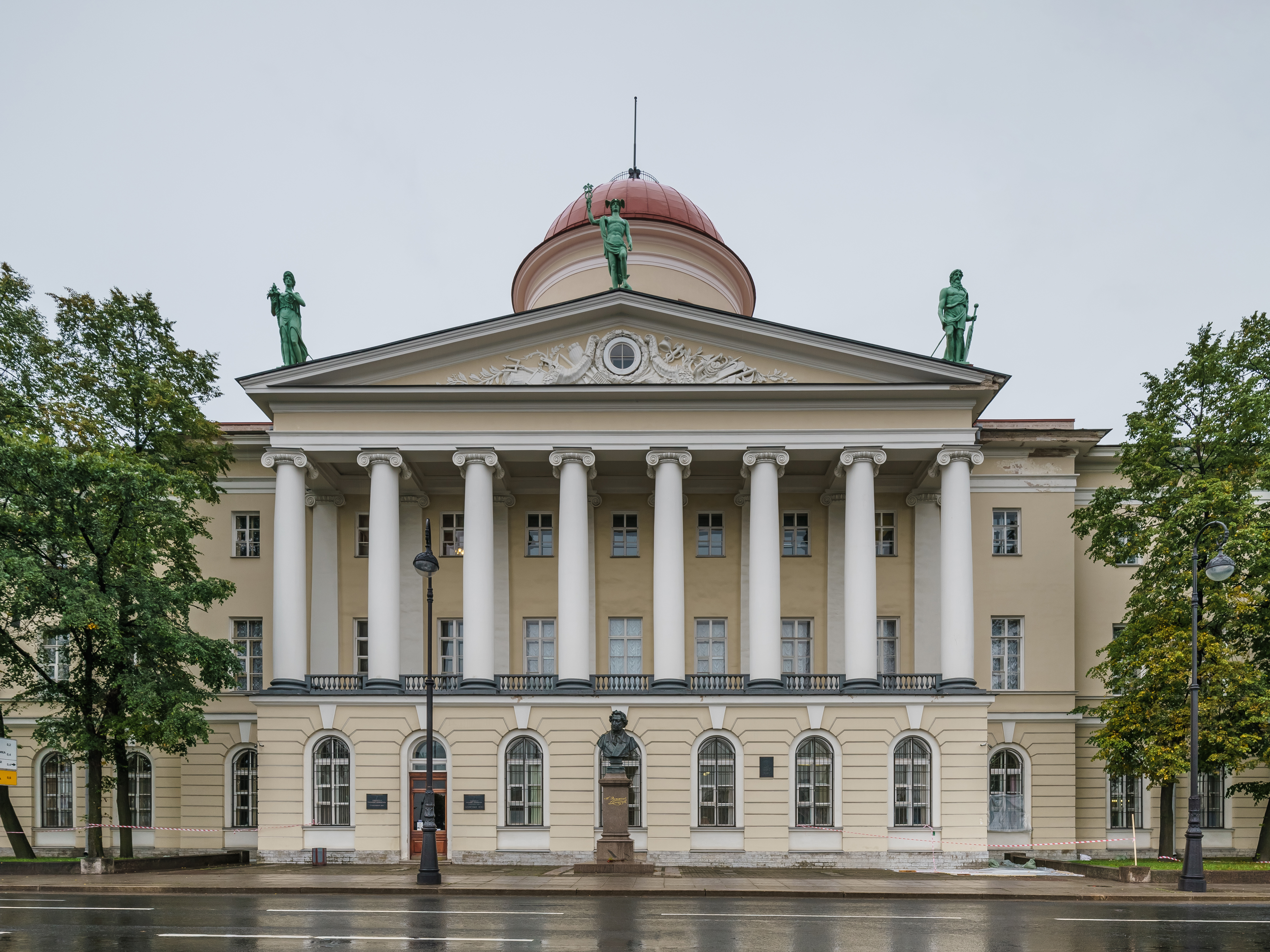 Exterior view of the Pushkin House on Vasilievsky Island in Saint Petersburg, Russia